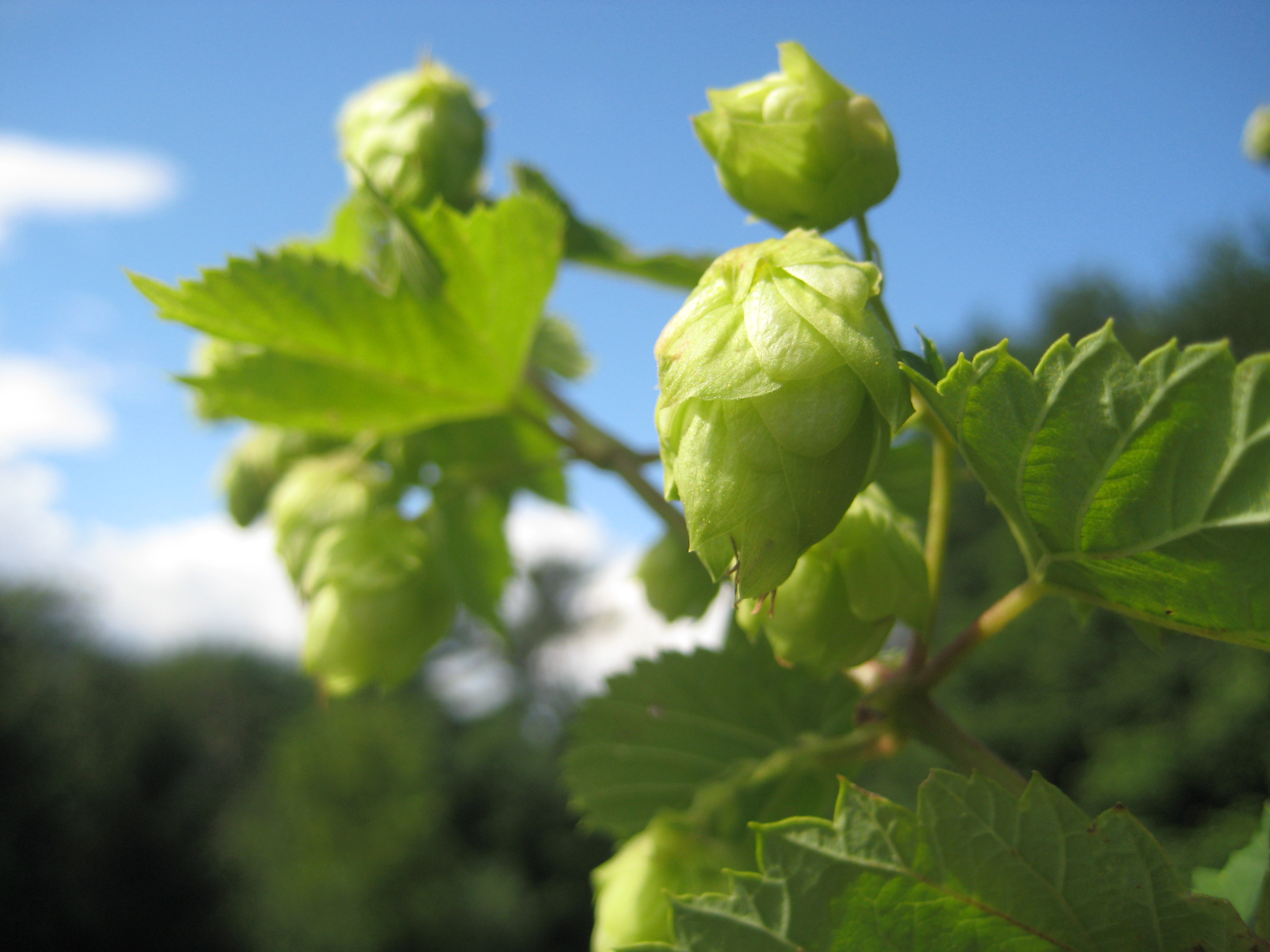 Cascade Hop cones in the sunlightCascade Hops!